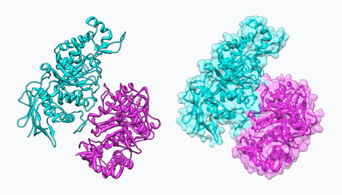 Hexosaminidase A shown as a heterodimer with Van der Waals interactions next to the ribbon conformation.